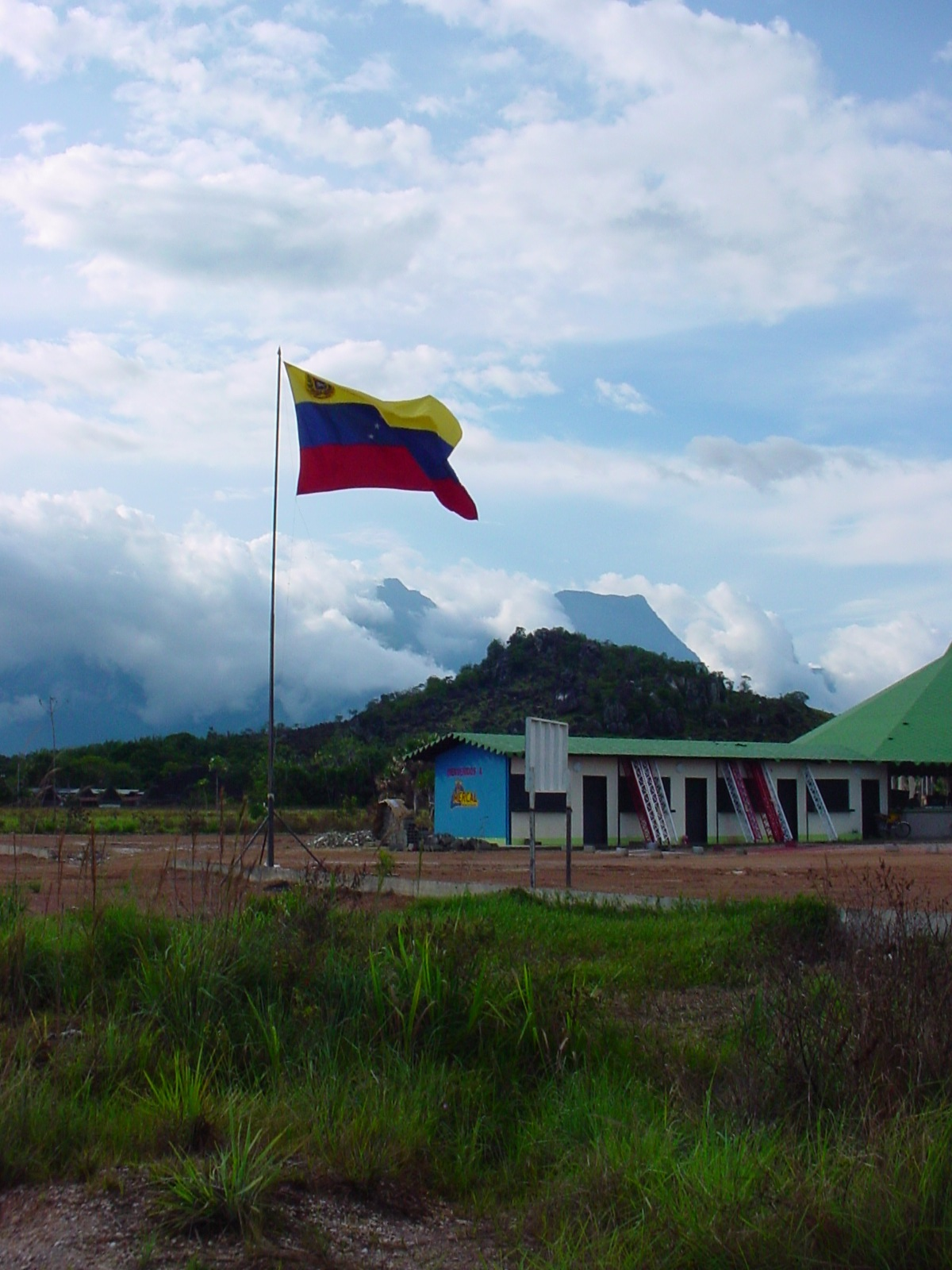 View of the Mercal at La Esmeralda with the Venezuela flag in the picture.